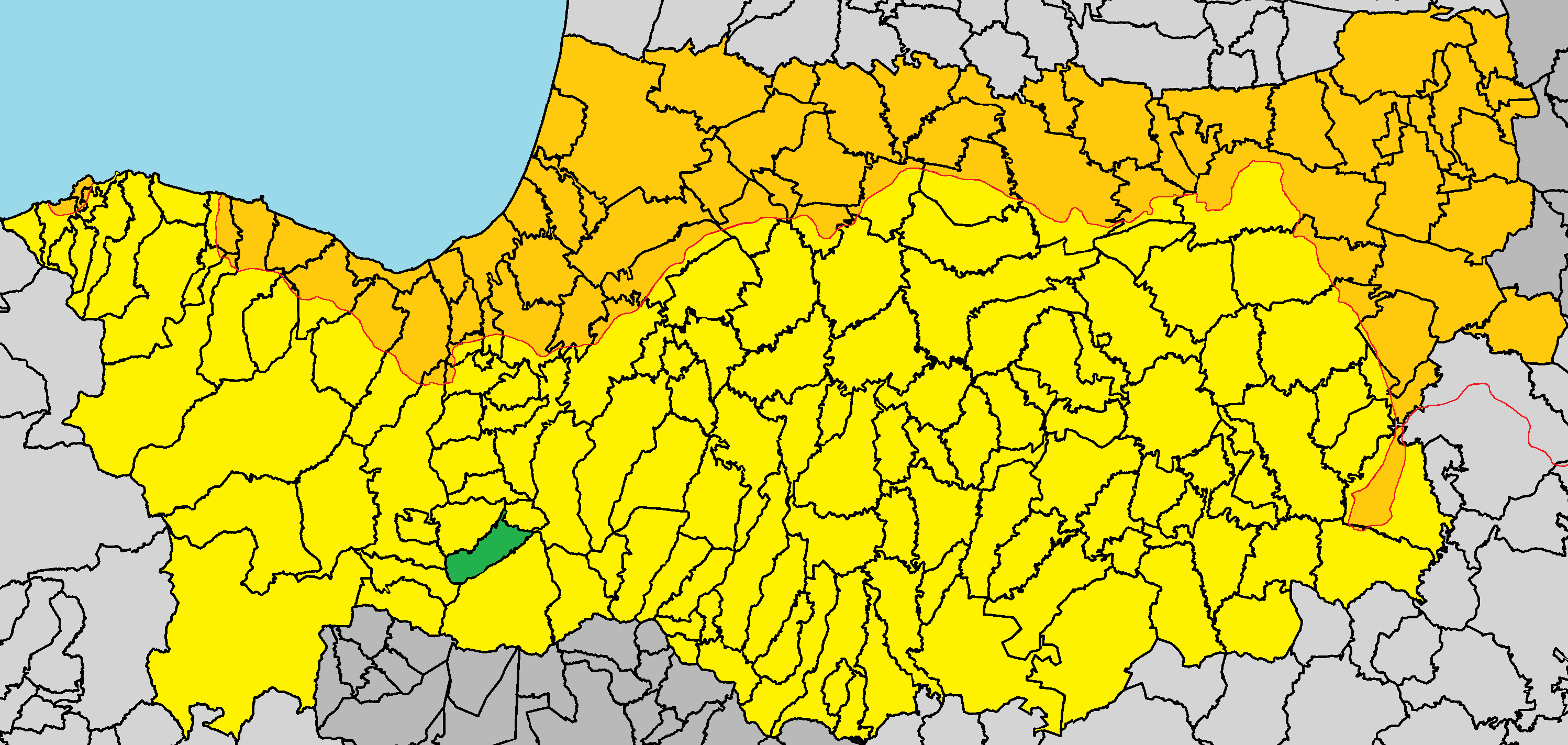 Galata in Nicosia District.